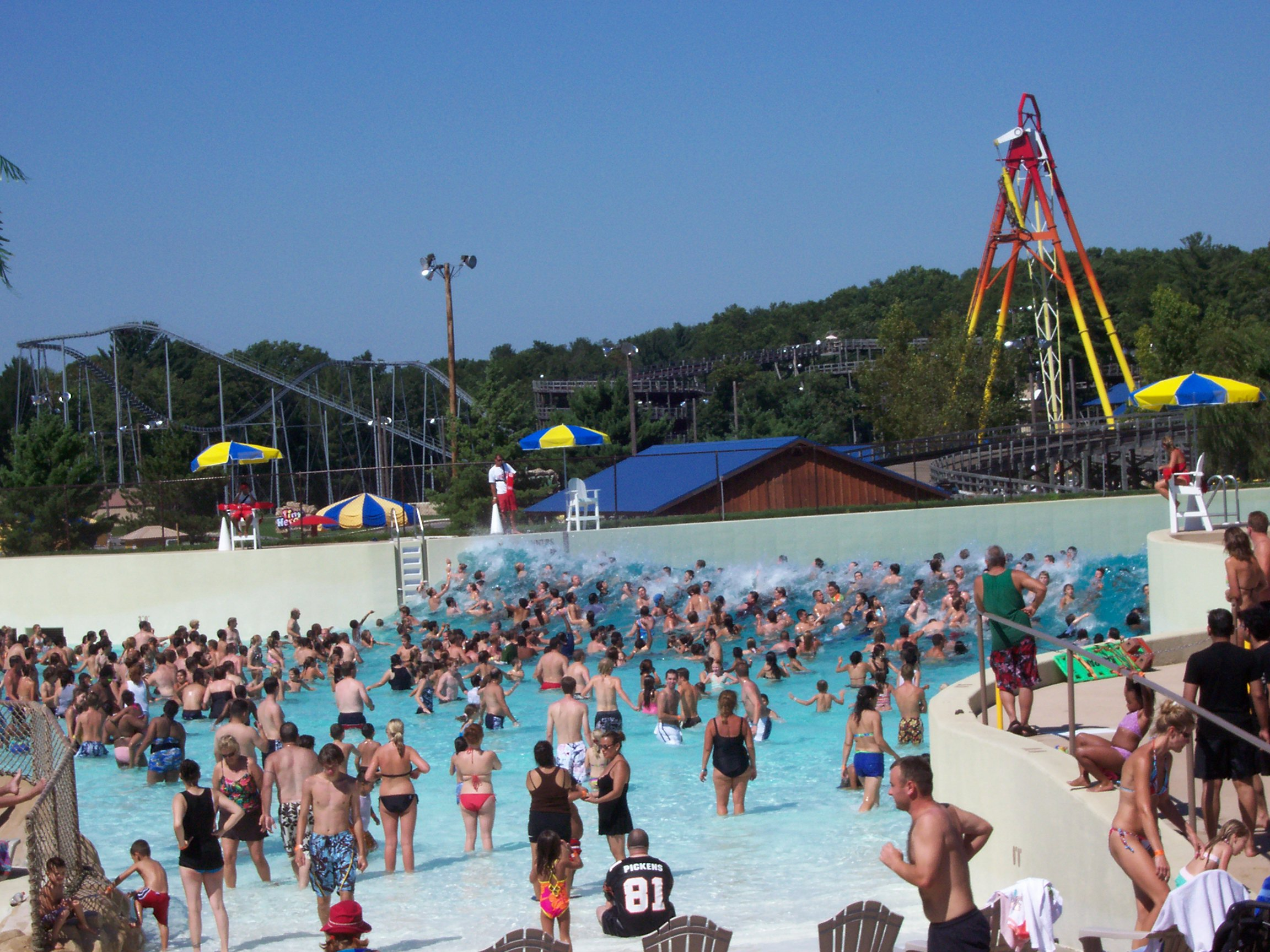 Poseidon's Rage Surf Pool at Mt. Olympus Water & Theme Park in Wisconsin Dells, Wisconsin, USA. Taken September 2, 2007 by myself.